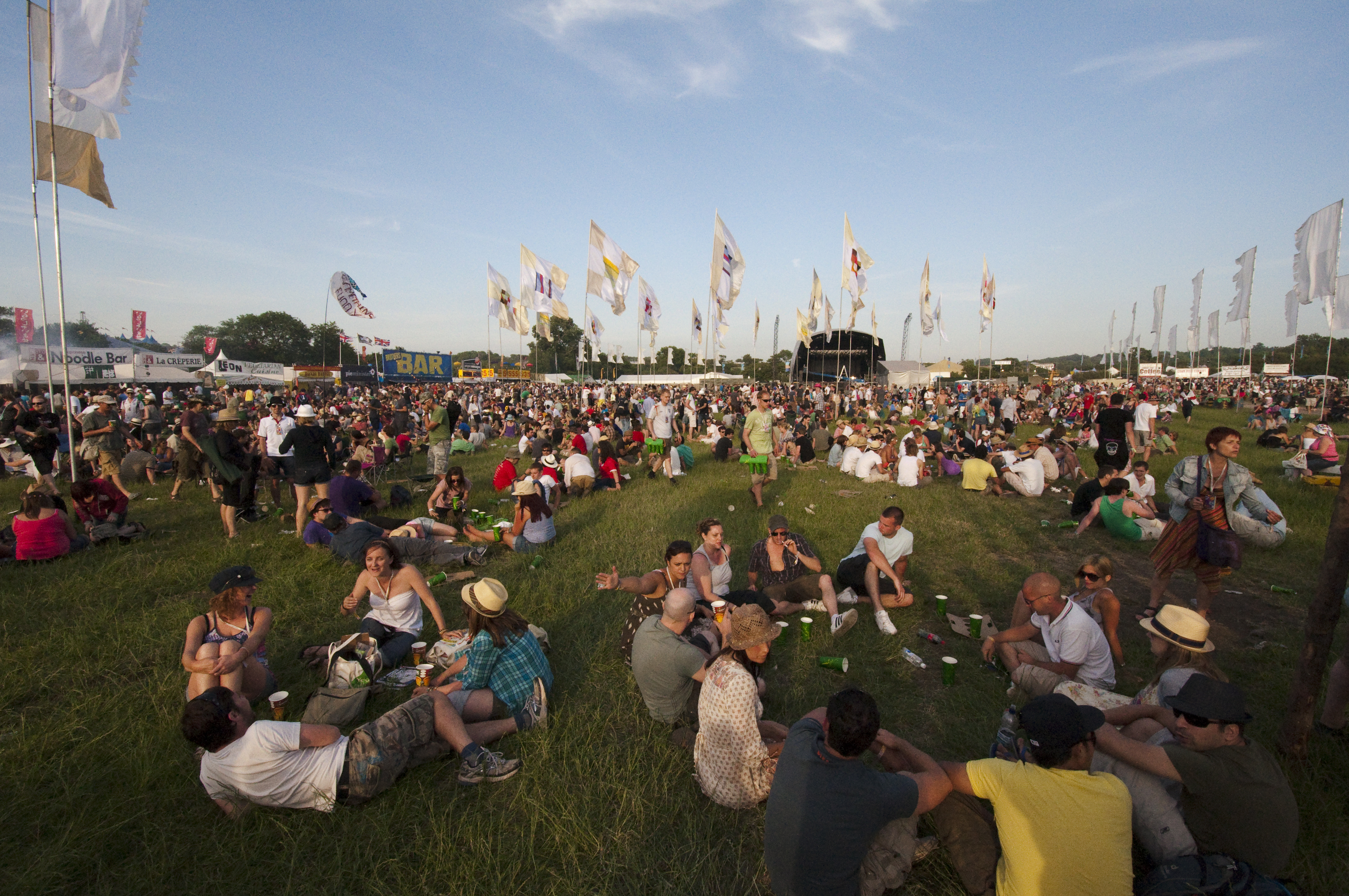 Brothers bar